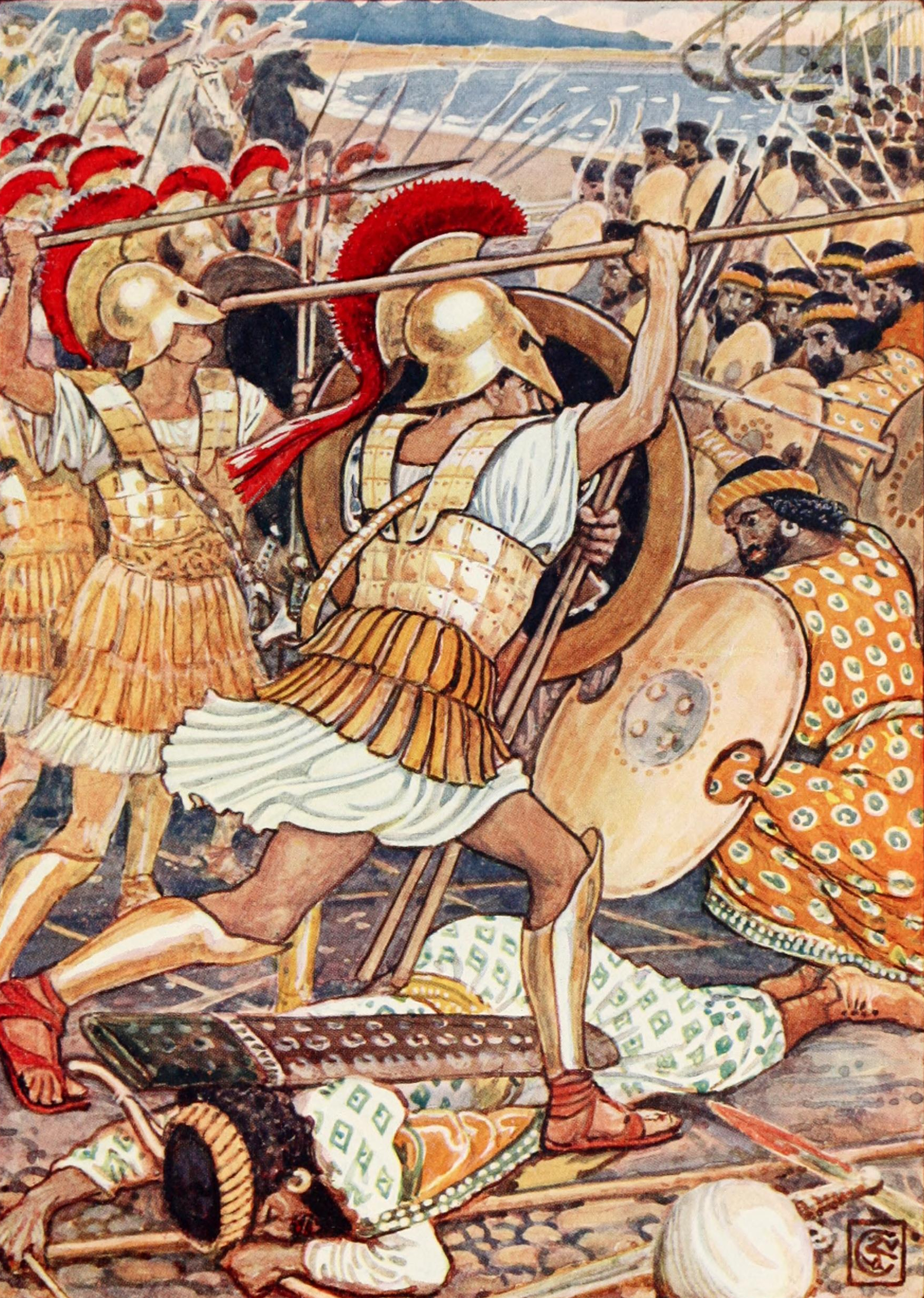 These stories from the history of ancient Greece begin with myths and legends of gods and heroes and end with the conquests of Alexander the Great. The book is accessible and well organized, but it is considerably more detailed than some other introductory texts. It covers Greek history from the age of Mythology to the rise of Alexander, but because of its length we do not recommend it for 5th grade or younger. It is an excellent reference, thoroughly engaging, and a good candidate for a somewhat older student's first foray into Greek history.